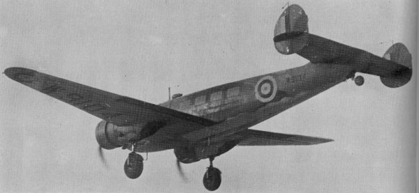 Lockheed Model 10 Electra transport in RAF service. Photograph published in: Aircraft of the Fighting Powers Vol IV Ed: H J Cooper, O G Thetford and D A. Russell Harborough Publishing Co, Leicester, England 1943. - where it was described, apparently erroneously, as the "C-37 Electra". Photographer not identified, so UK Copyright contended to have lapsed 50 years after publication. Picture prepared for Wikipedia by Keith Edkins in April 2004. Additional information: Serial Number W9104 was a Lockheed 10A Electra (Lockheed Serial Number 1122) delivered new with British registration G-AFEB in 1938 impressed into service with the Royal Air Force 12 April 1940, damaged beyond repair 12 October 1941.